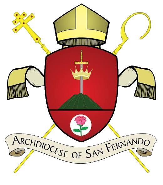 The official Coat of arms of the Archdiocese of San Fernando.